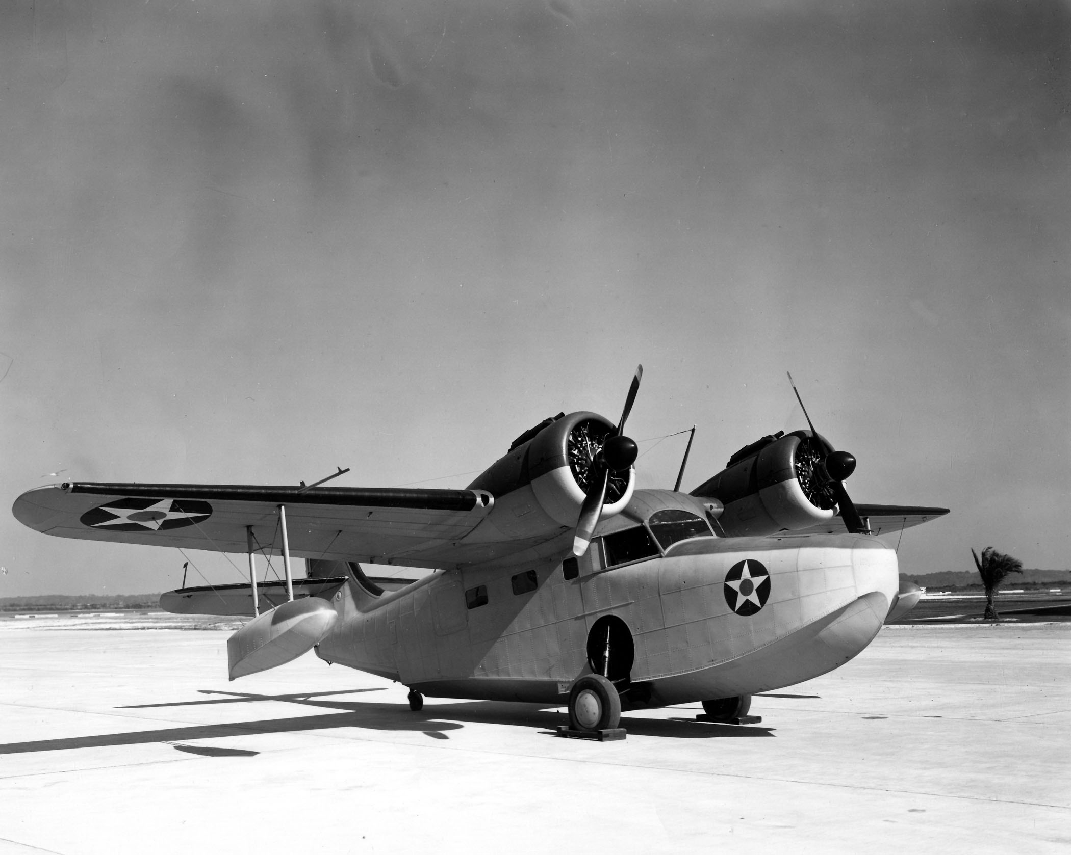 This JRF-5 Grumman JRF-5 Goose was assigned to Naval Air Station Jacksonville, Florida (USA), in 1941 and remained on the station throughout the Second World War. Only one of these aircraft flew from the station and was used for utility purposes, including photography.